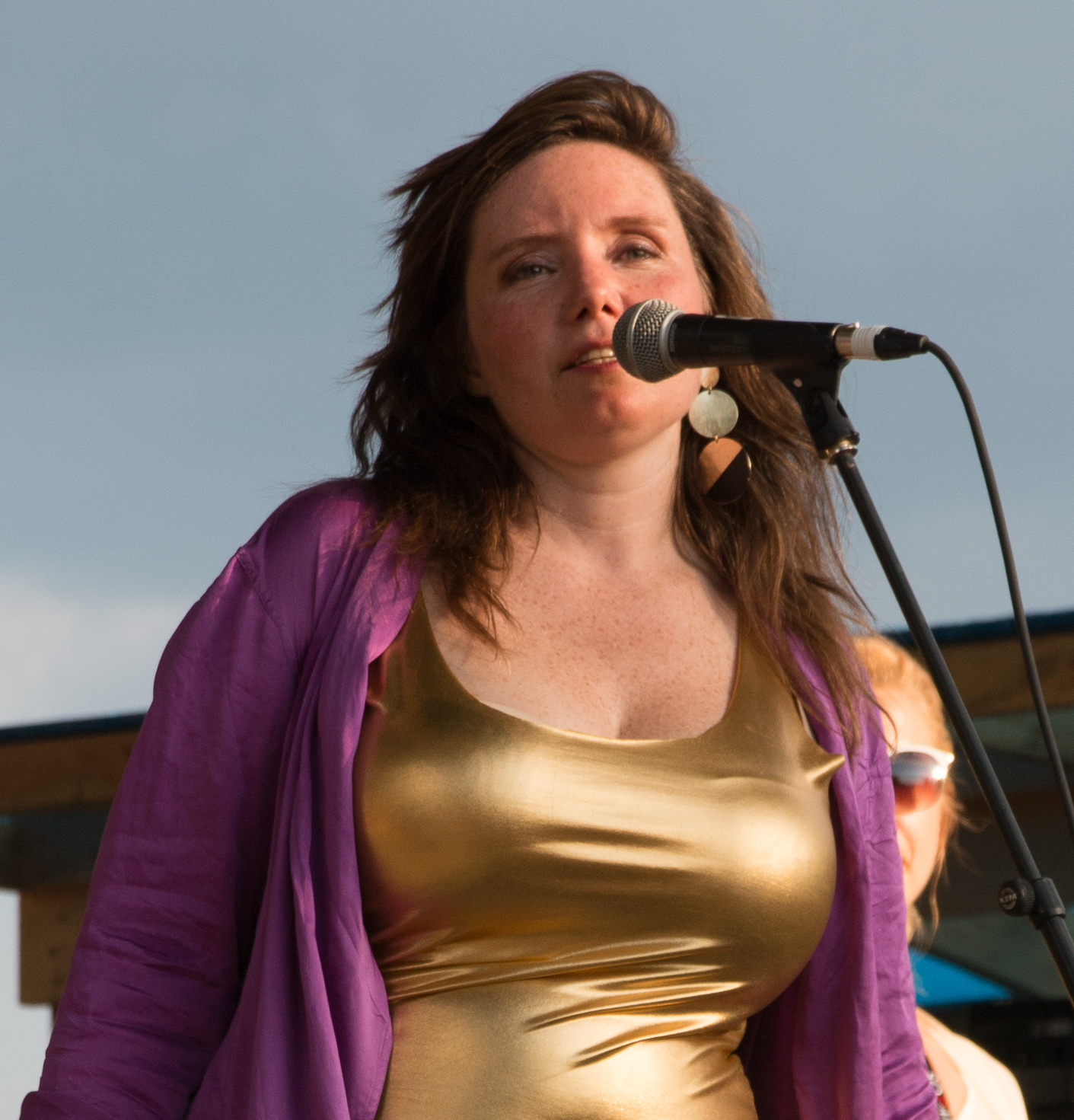 Frazey Ford performing at the 2015 Hillside Festival in Guelph, ON